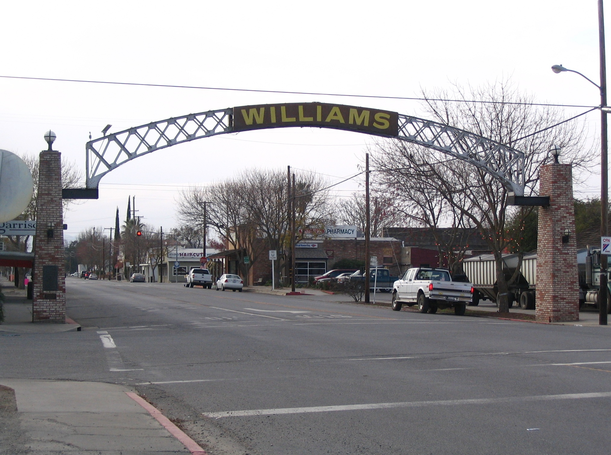 Entrance arch to downtown area of the town of Williams, California.